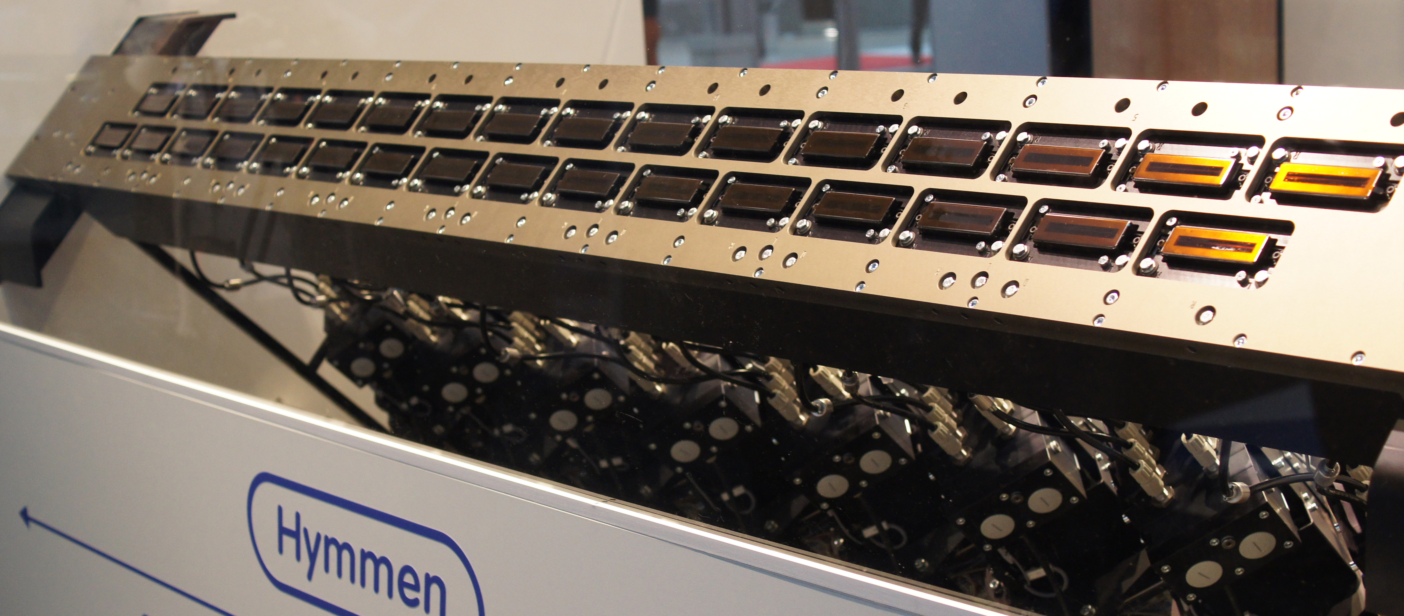 Print bar carrying redundantly overlapping nozzle arrays for the inkjet printing on 2.10m wide decor webs, wallpapers and veneers